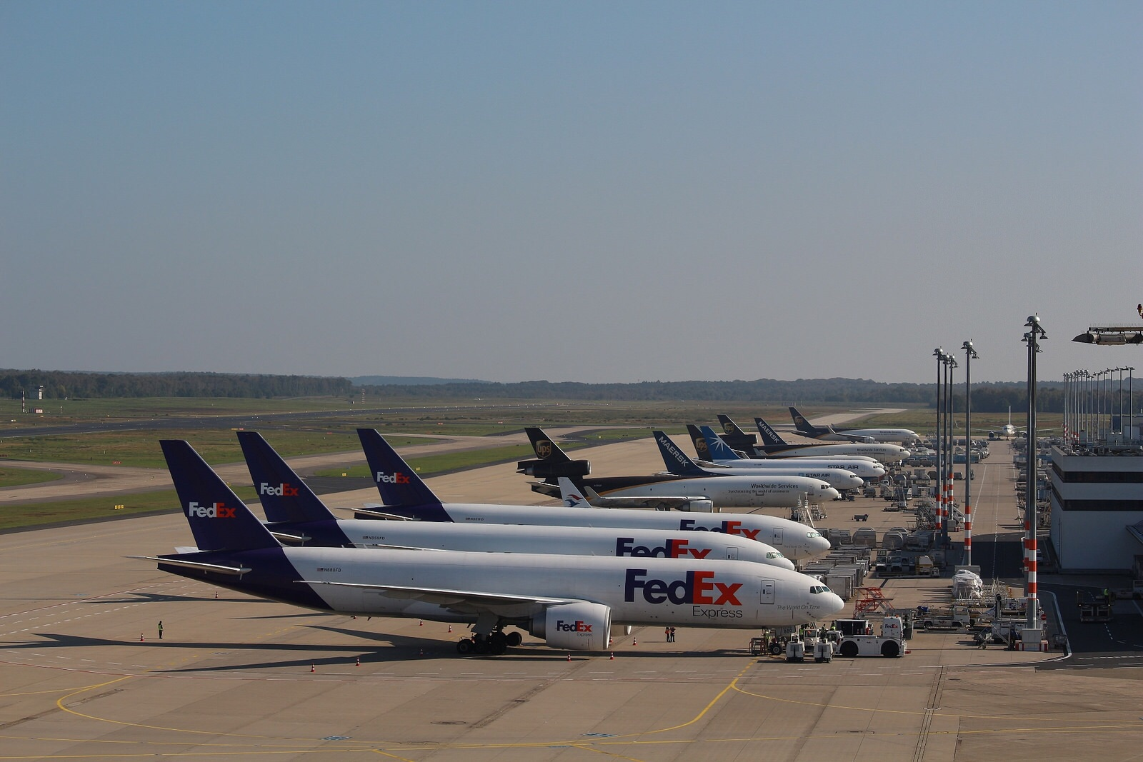 Full Cargo Ramp at CGN Airport